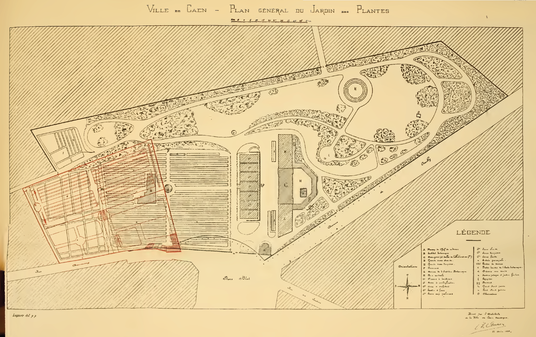 map of the botanical gardens of Caen in 1898.